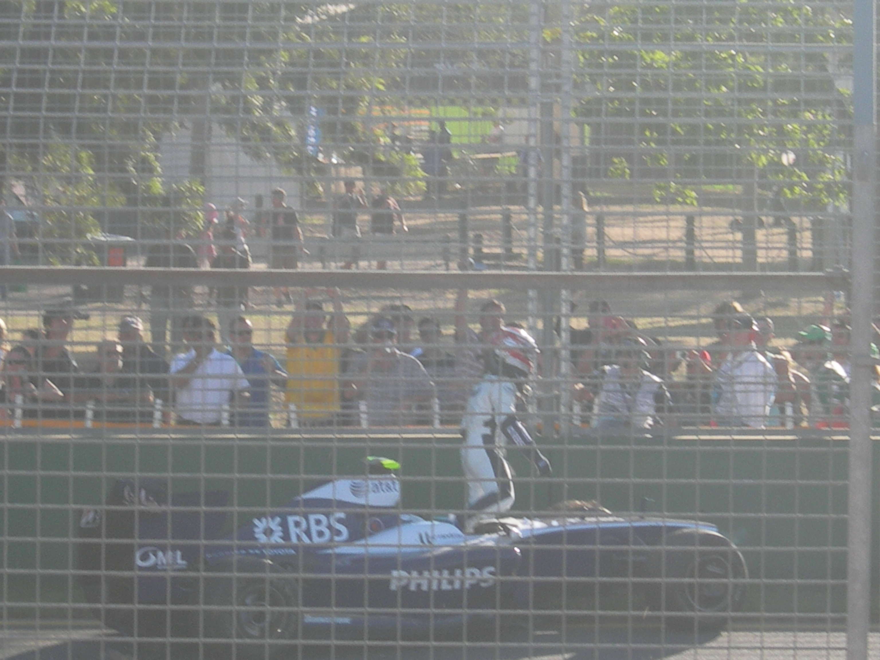 Nakajima after retiring from the 2009 Australuan Grand Prix